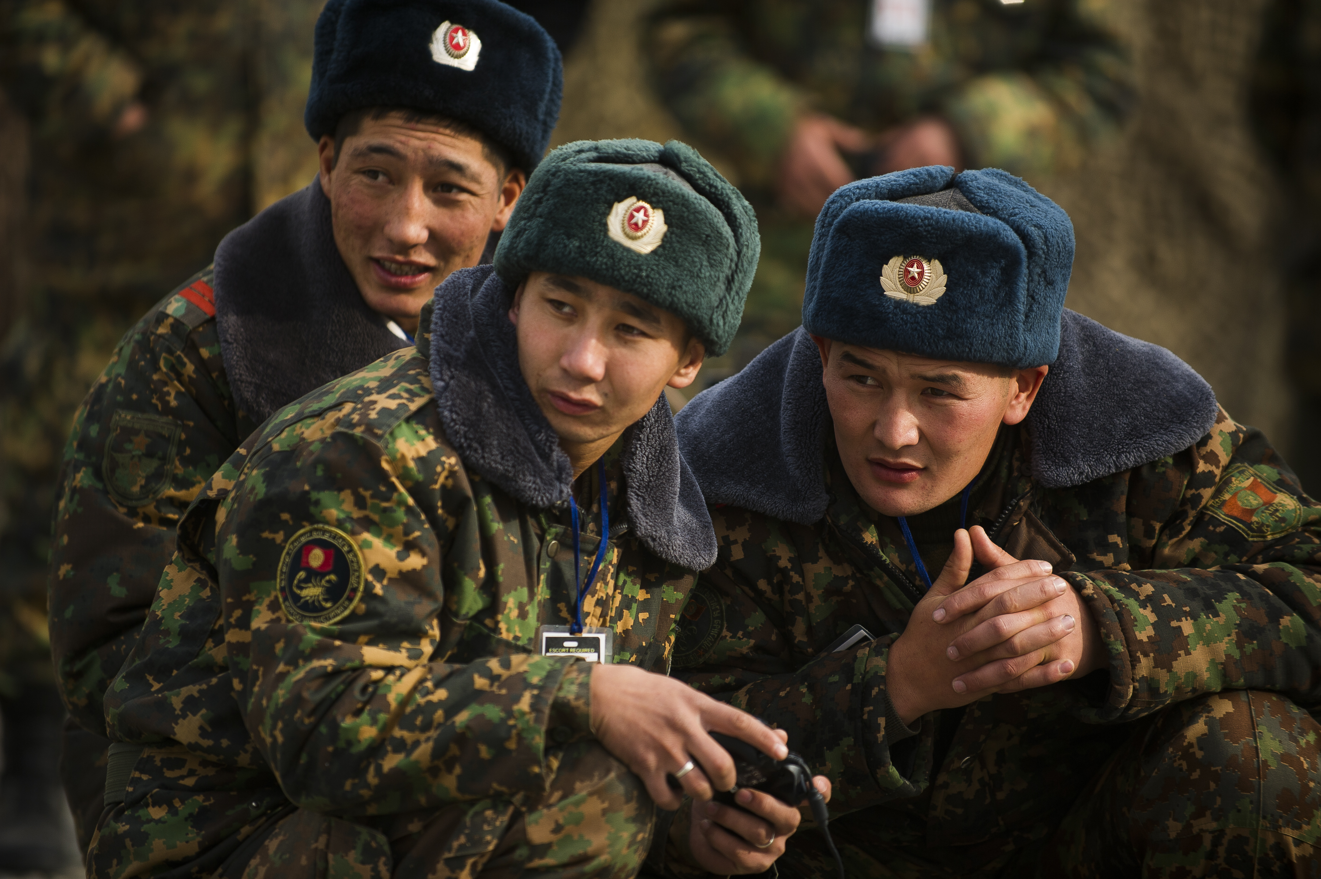 Members of the Kyrgyz military control an explosive ordnance robot during a joint military training exchange, Nov. 19, 2013, at Transit Center at Manas, Kyrgyzstan. The U.S. and Kyrgyz EOD technicians trained together to exchange techniques that they use to disarm and eliminate explosives.